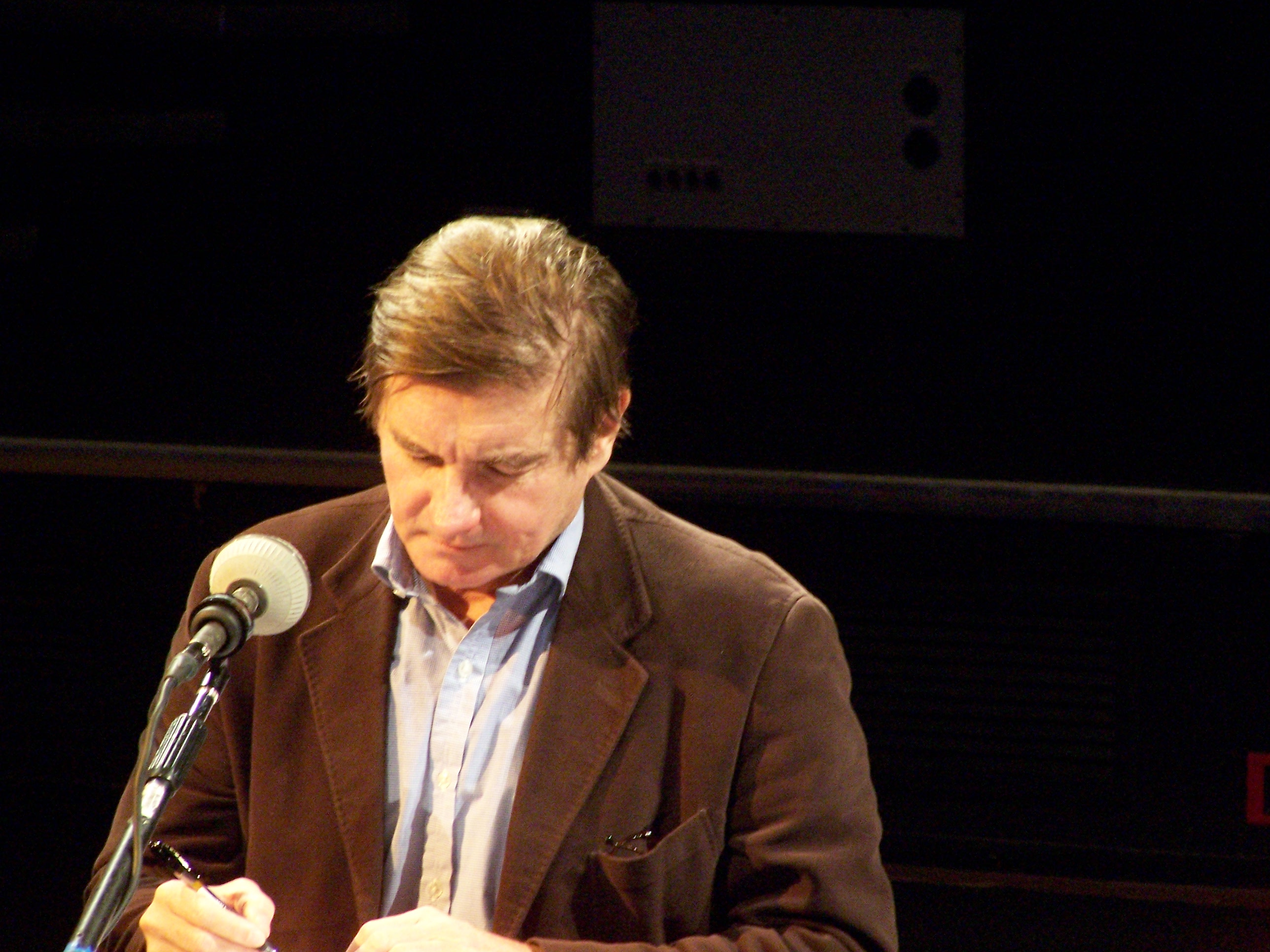 French critic Éric Neuhoff at the radioshow Le Masque et la Plume on Nov 15th 2012 (aired on Nov 18th 2012).